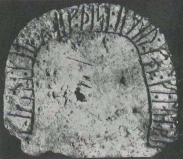 image of runestone